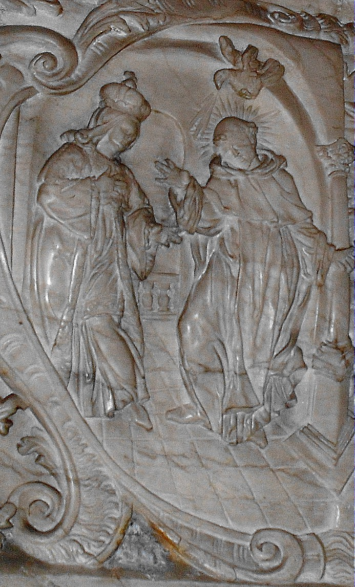 The tomb of Bl. Ceslaus Odrowaz (detail), Wrocław, Poland. XVIII century work of Georg Leonhard Weber (ca. 1675-1732) from Świdnica and Franz Joseph Magnoldt (+ 1761) from Wrocław.